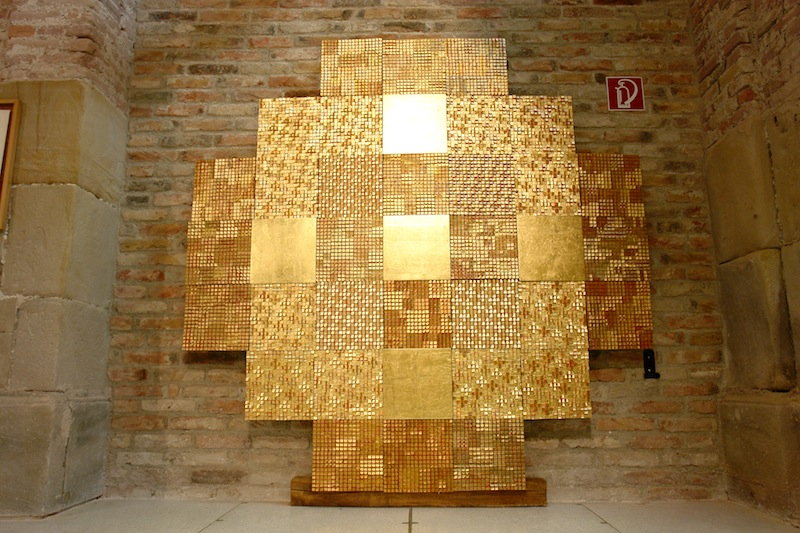 Sculptură în lemn aurit (Silviu Oravitzan)